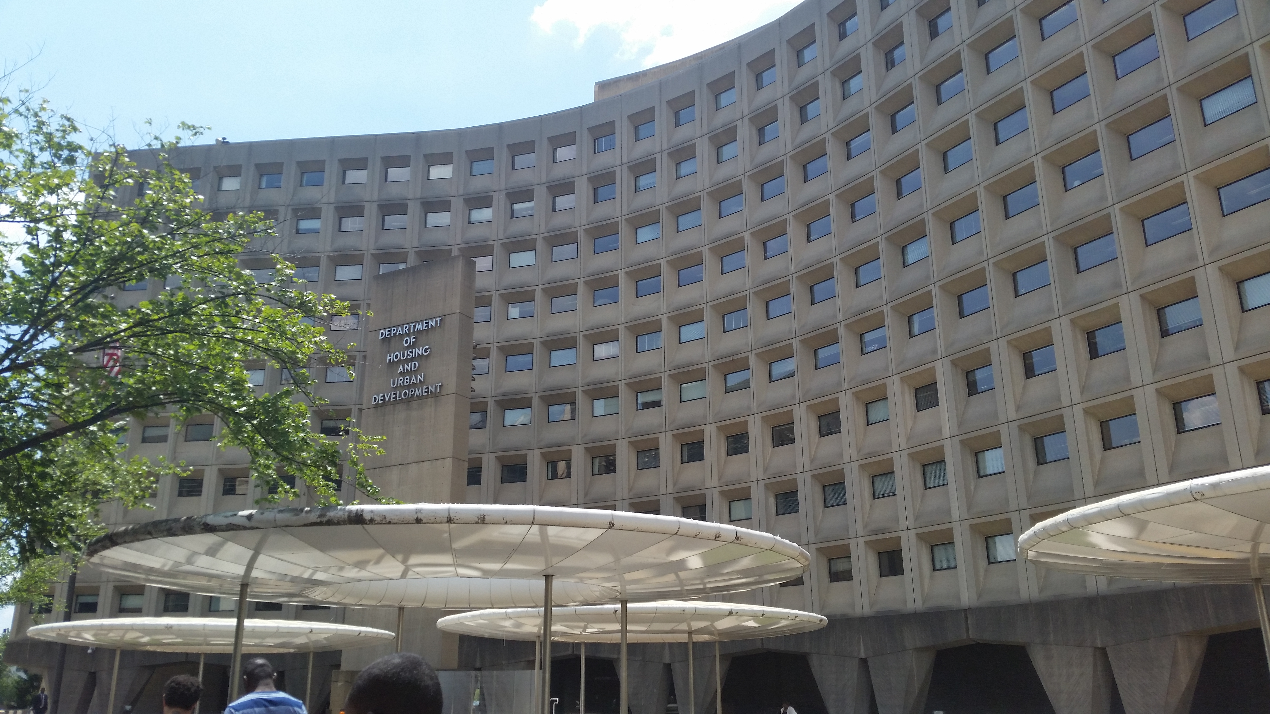 Robert C. Weaver Federal Building, Department of Housing and Urban Developement in Washington D.C